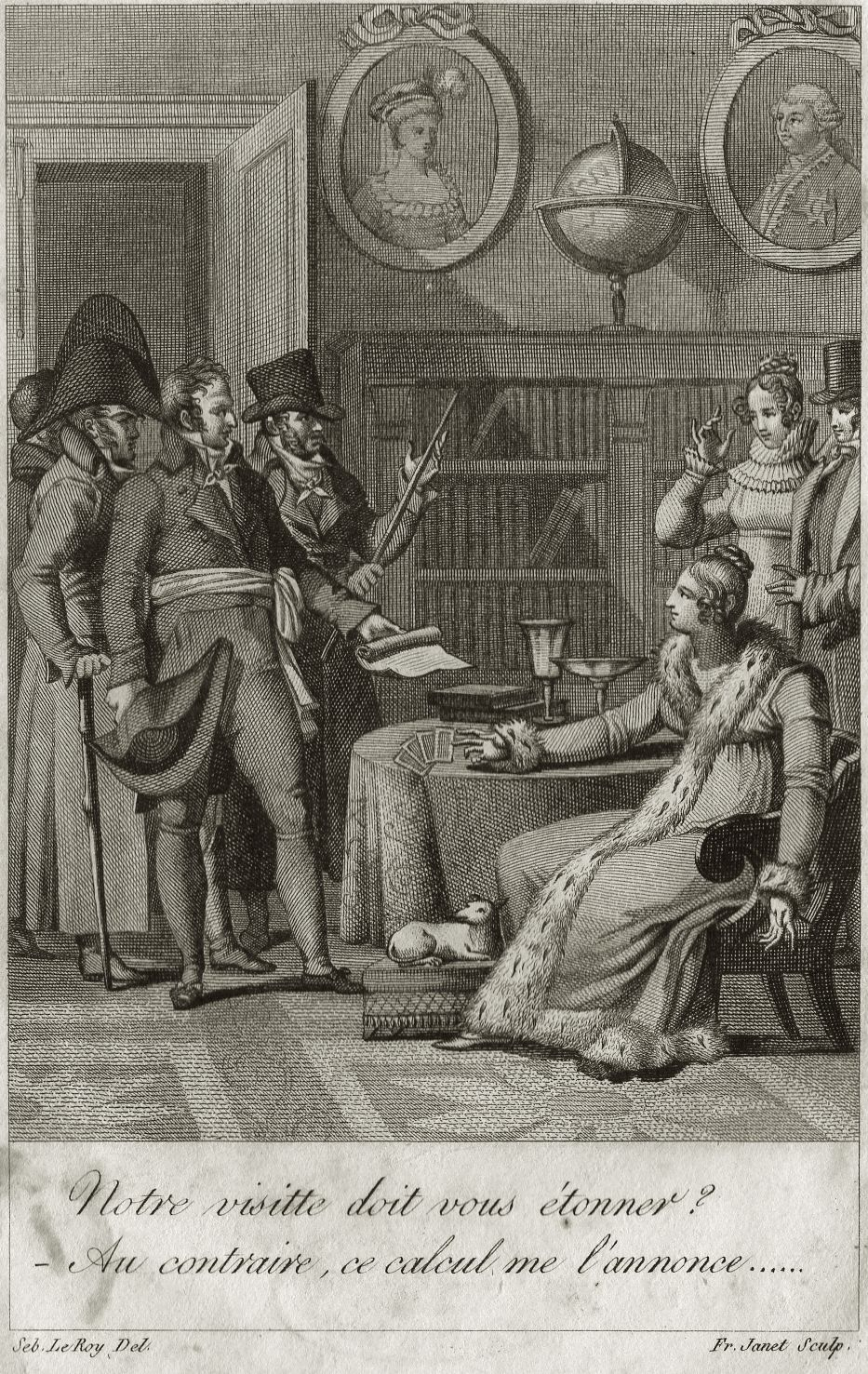 Mademoiselle Lenormand's Arrest (1772 – 1843): “—Notre visitte doit vous étonner ? — Au contraire, ce calcul me l'annonce”.